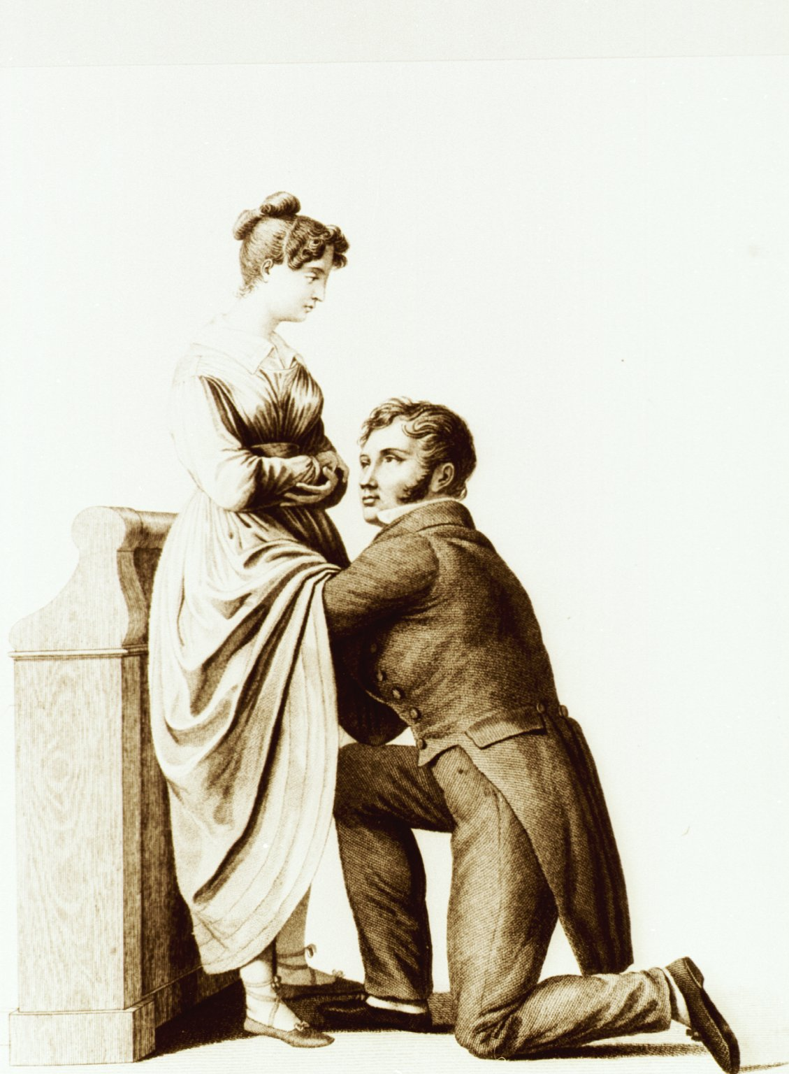 A woman is in a standing position during an obstetrical examination.